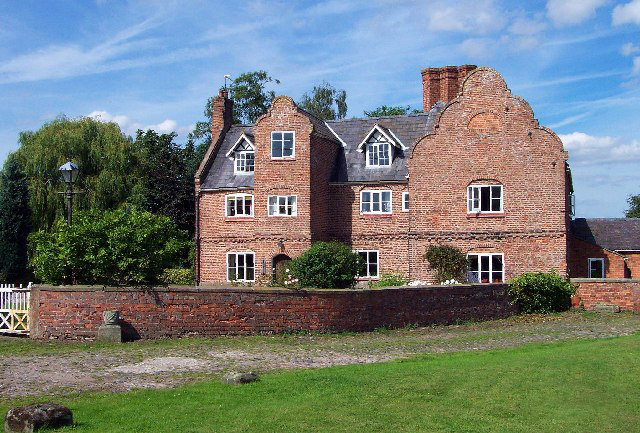 Chorlton Old Hall, Chorlton. View on 35 deg bearing from adjacent public footpath (Chorlton 4). Now a dairy farm, Chorlton Old Hall's main claim to fame is as the birthplace of John Caldecott (1813-1875), the father of Randolph Caldecott (1846-1886) a well-known Victorian illustrator of children's books. It is set in undulating countryside just east of the flat flood plain of the River Dee. Not to be confused with Chorlton Hall! SJ4648